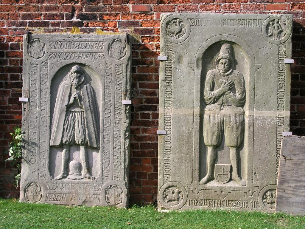 Wremen, Lower Saxony, Germany: Gravestones on the churchyard , photo 2006